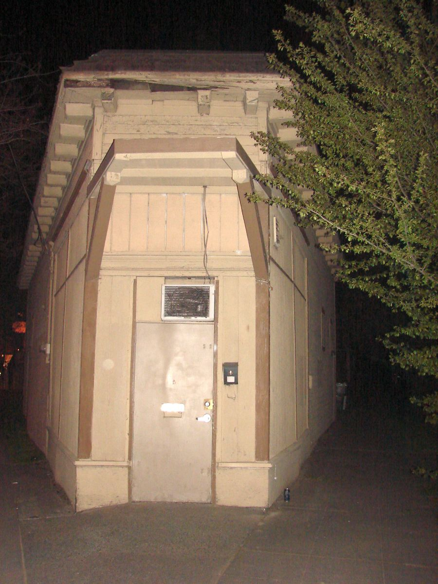 Photo of building on Leary Way in the Freemont neighborhood of Seattle where Jack Endino recorded many Seattle bands, including Nirvana's demos and debut on Sub Pop Records, "Bleach".